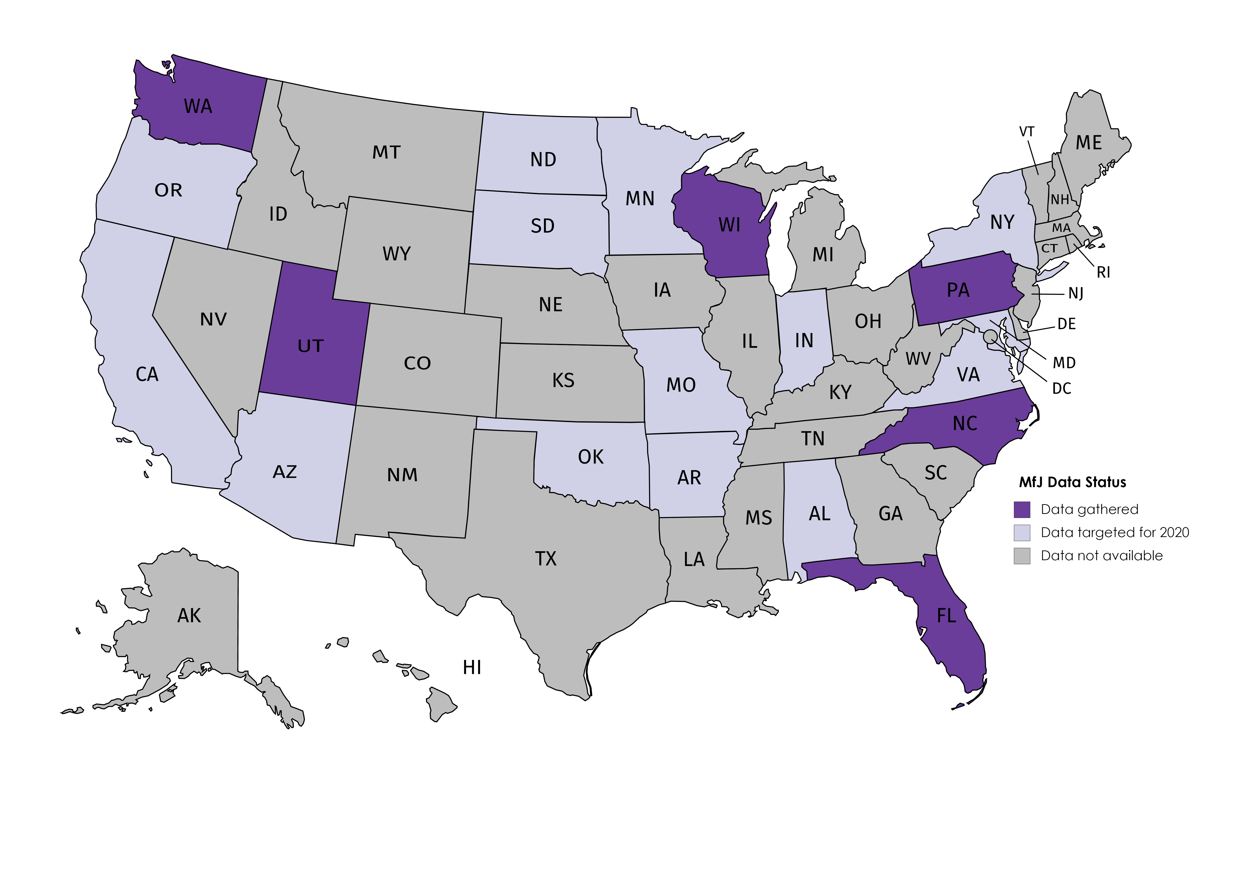 Measures for Justice has gathered the judicial/criminal information for all counties in 6 states, and is capturing another 14 states for by 2020. The other 30 states have not yet commenced data gathering. This map outlines this status